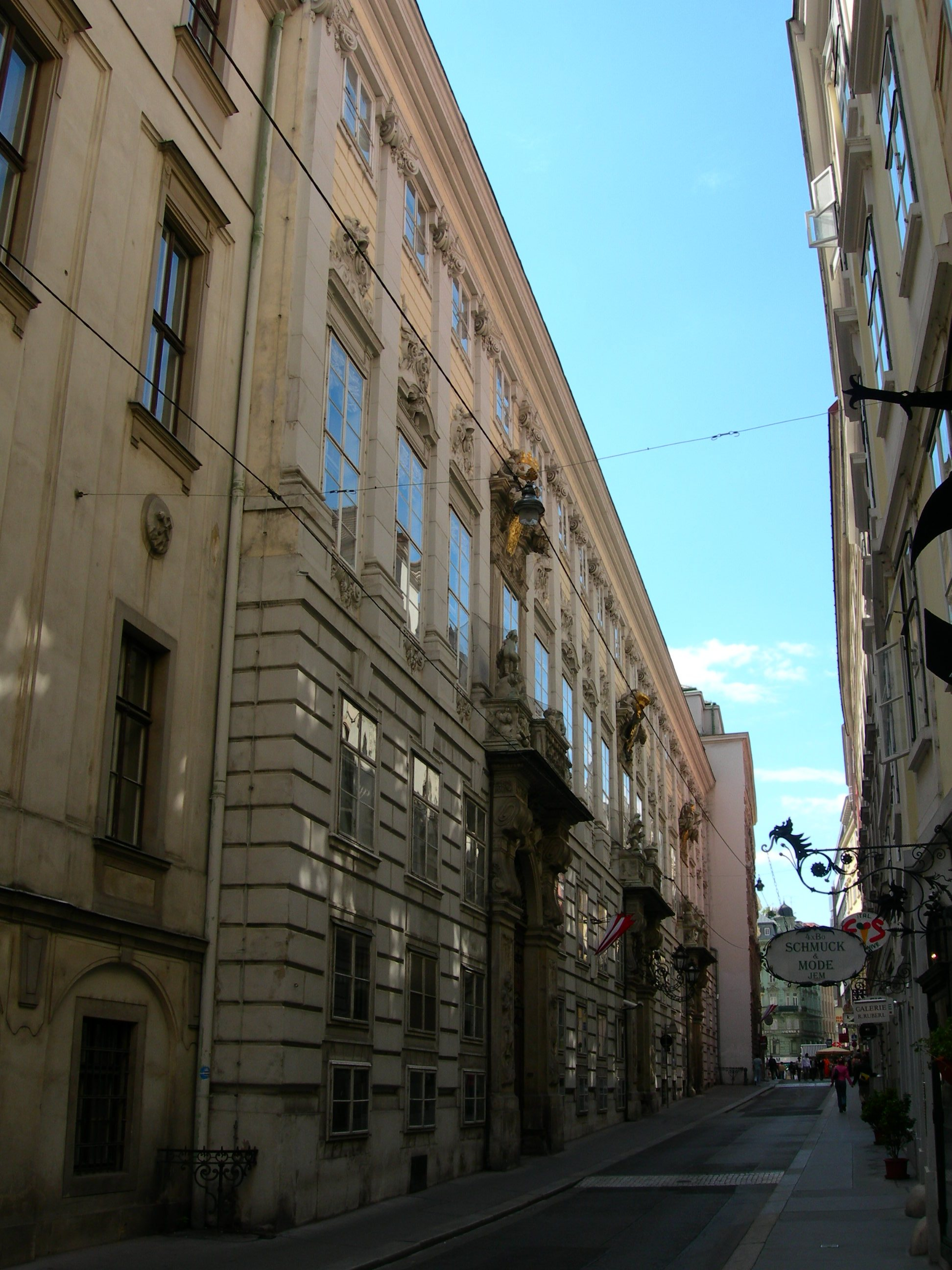 Image of the Winterpalais Prinz Eugen in Vienna, today main seat of the Austrian Federal Ministry of Finance.